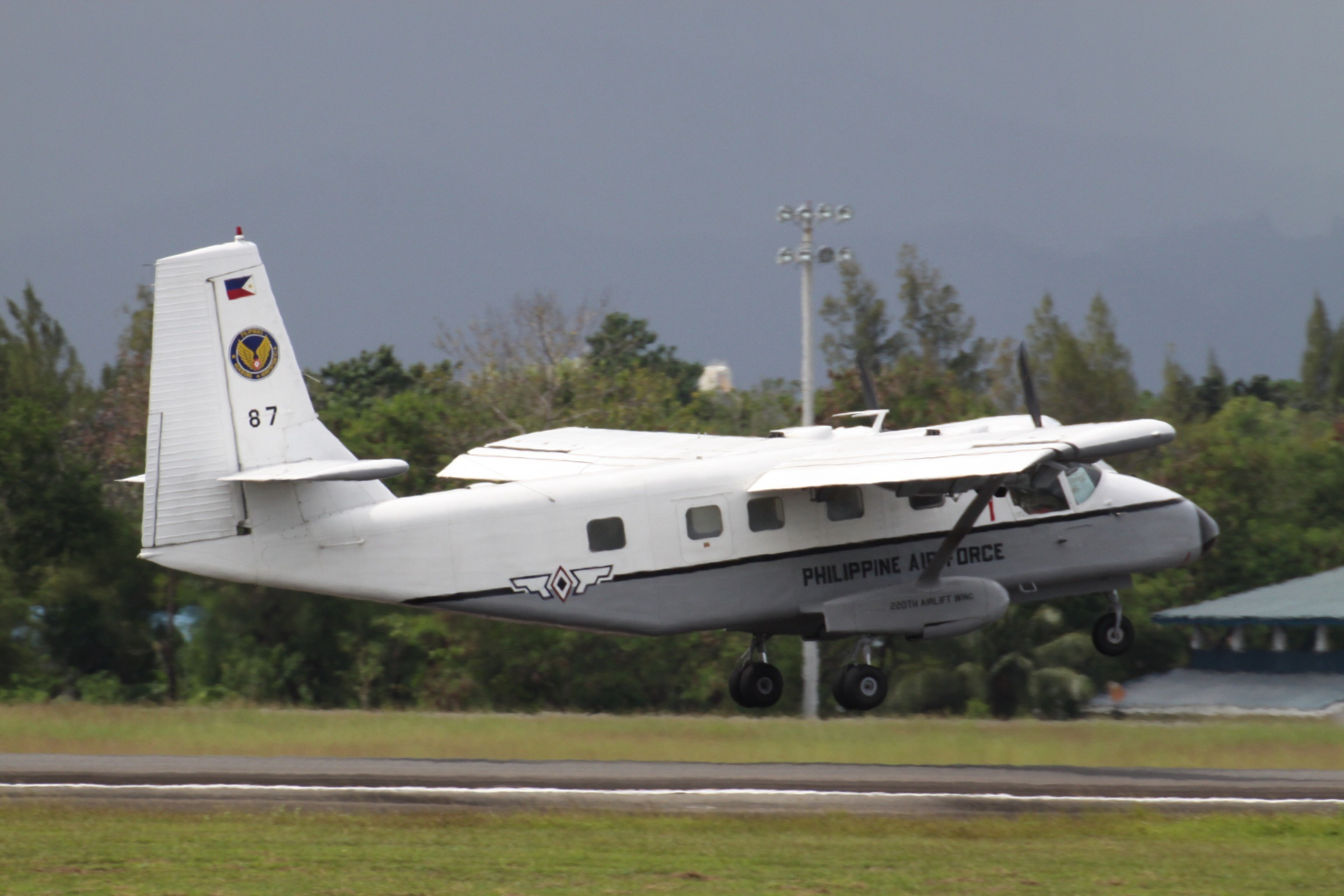 At Mactan-Cebu International Airport